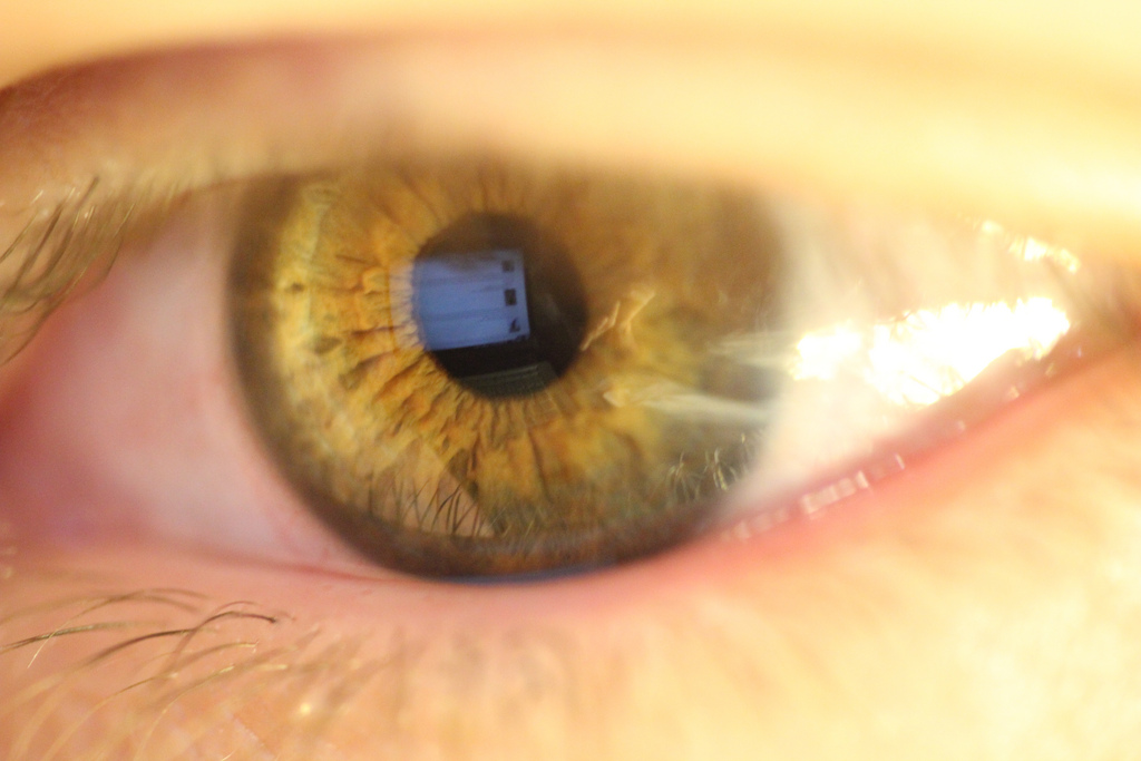 Green-Brown Iris Macro close-up. Photo of Anthony's Eye. Anthony's age at time of photo = 21 years old.